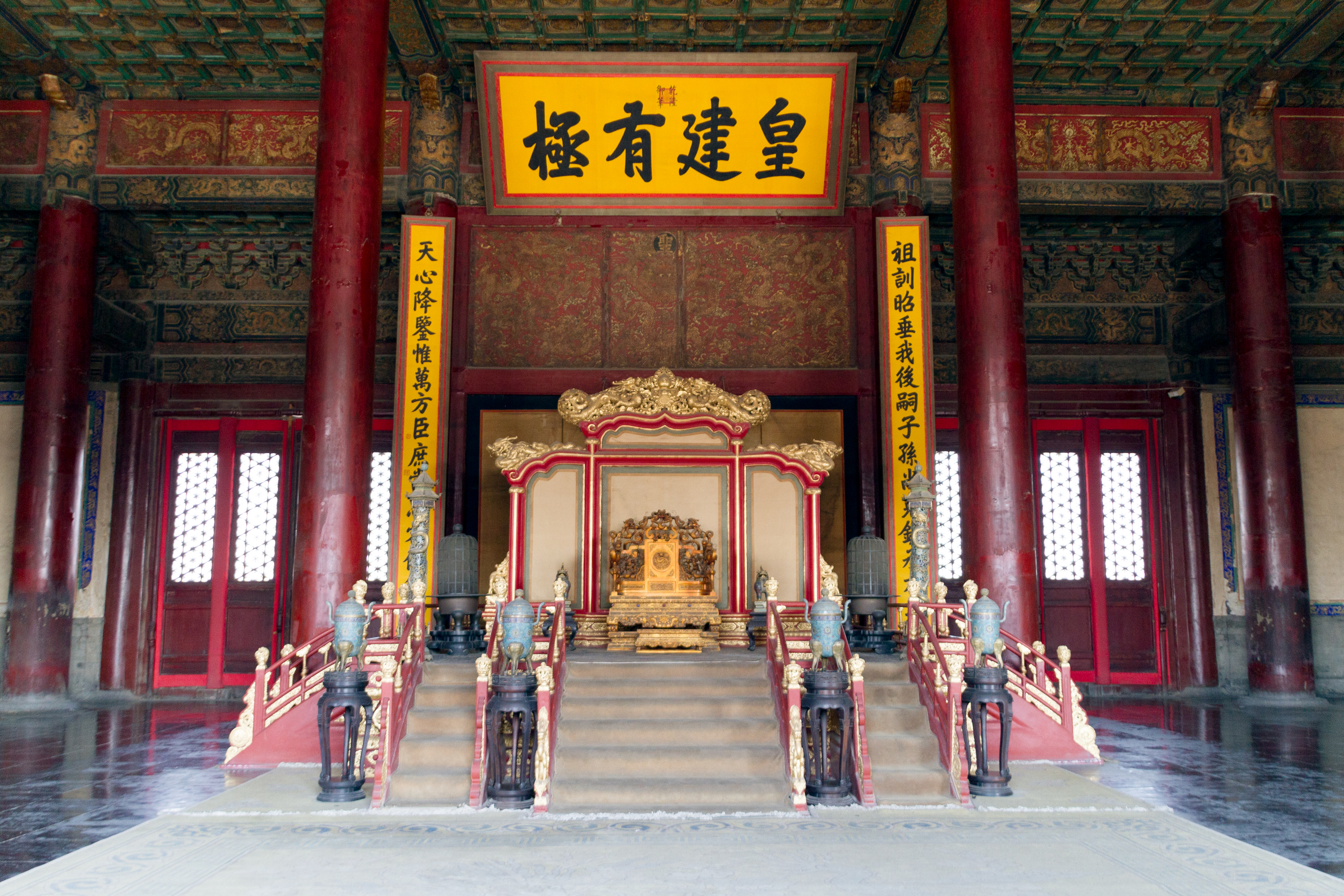 Hall of Preserving Harmony interior